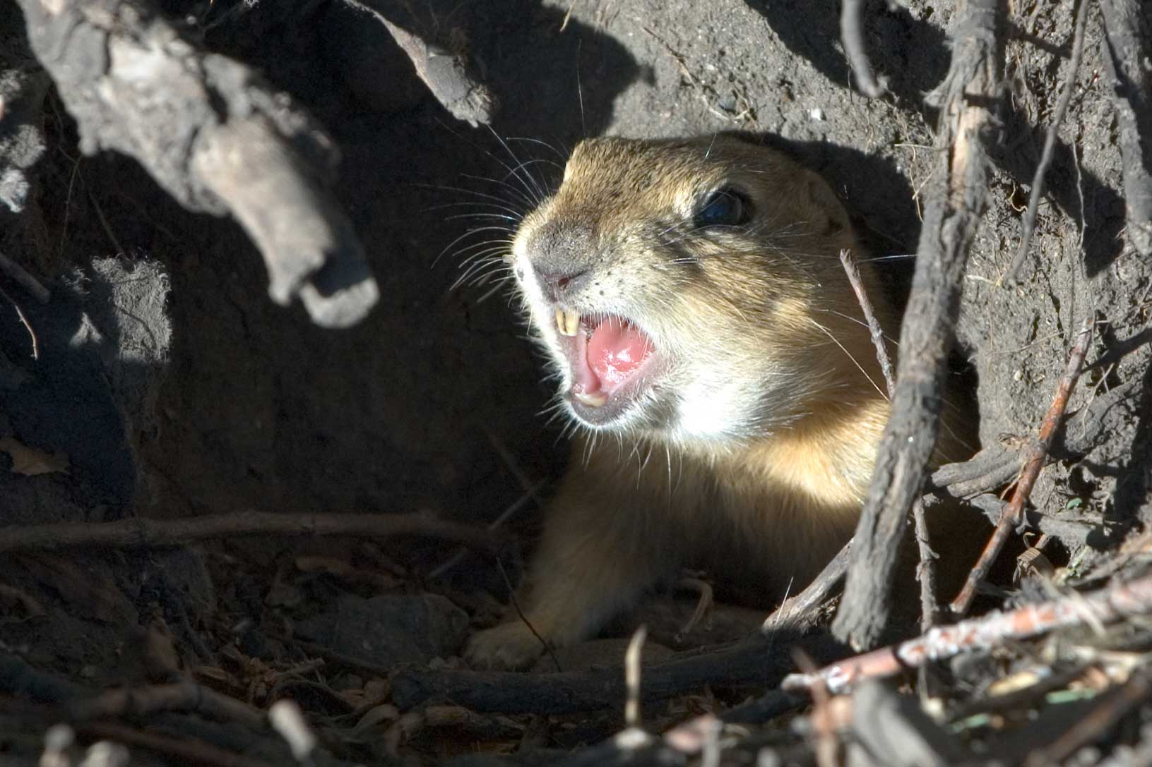 A Richarson's Ground Squirrel (Spermophilus richardsonii), exhibiting territorial behavior in Fish Creek Park, Calgary, Alberta. Photo by Chuck Szmurlo taken July 9, 2005 with a Nikon D70 and a Nikon 70-200 f 2.8 lens.